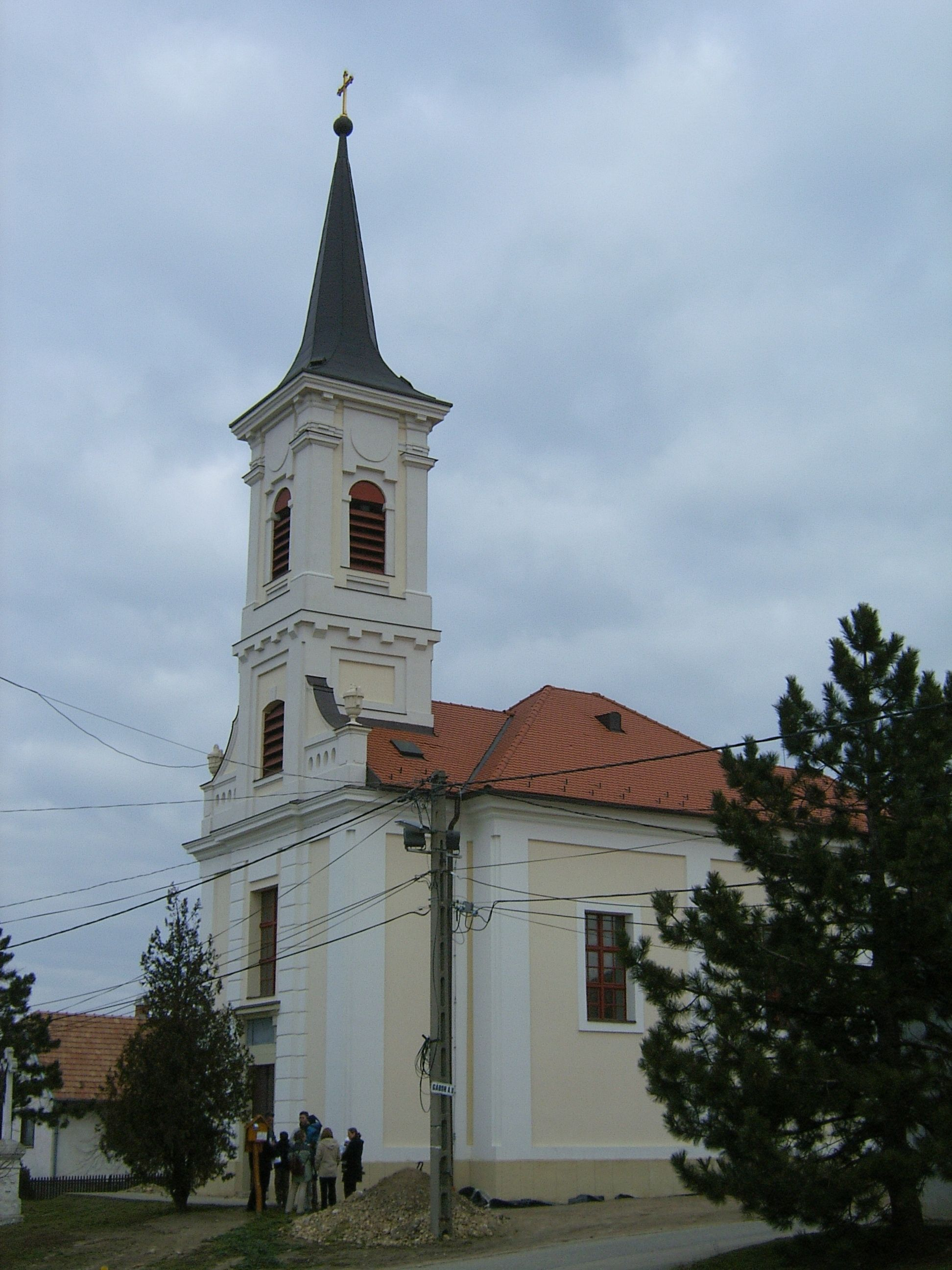 Telki Church